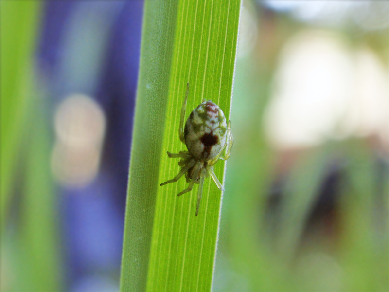 Nigma puella, Europe, Portugal, Leiria, Ansião